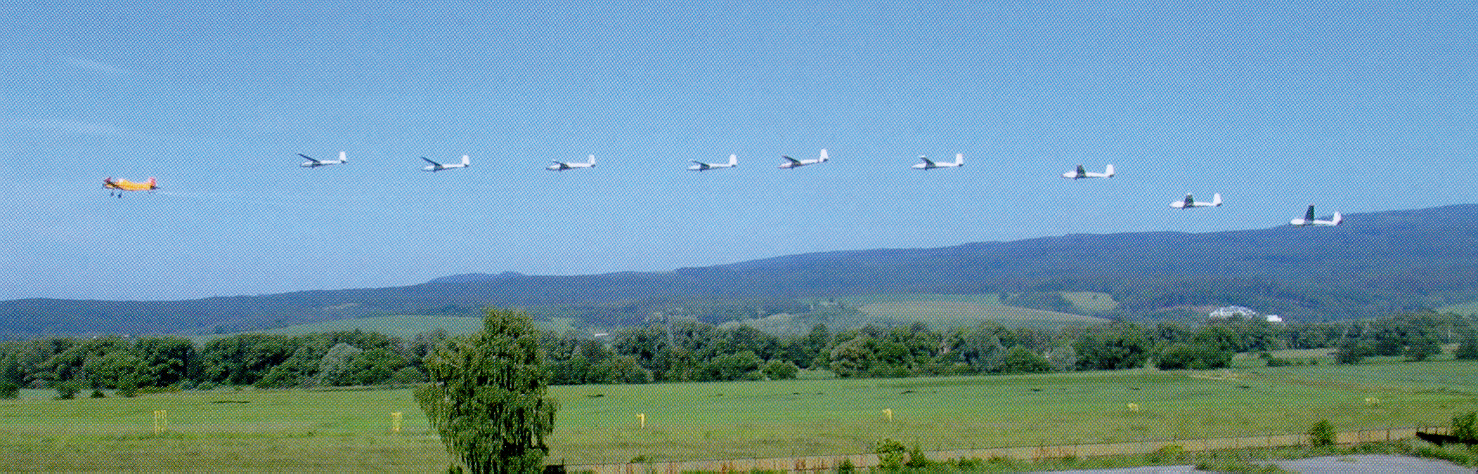 A Z-37T Agro Turbo towing nine Let L-13 Blanik gliders simultaneously